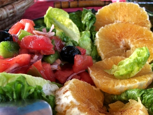 Moroccan salad served at Chez Talout near Oasis Skoura